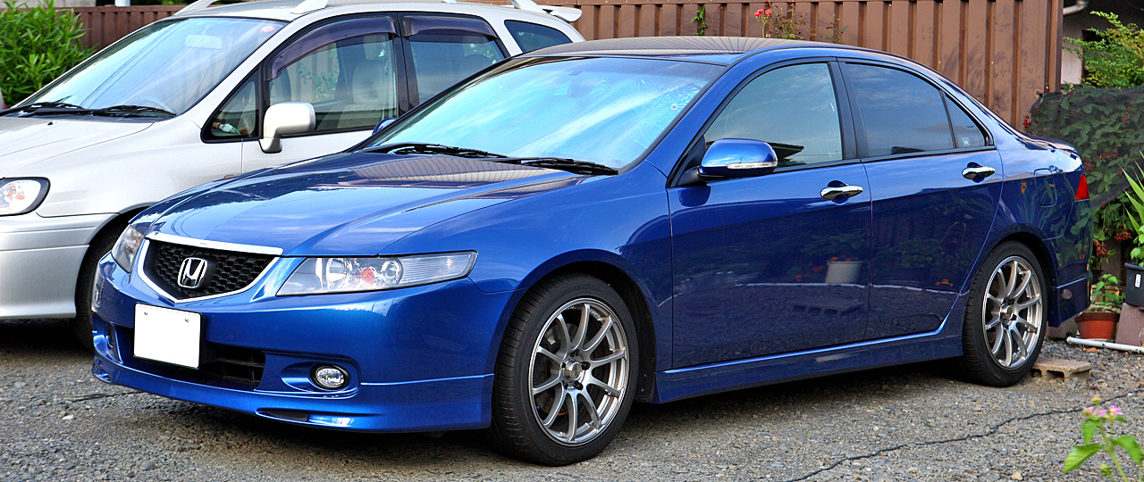 7th generation Honda Accord sedan ( JDM )